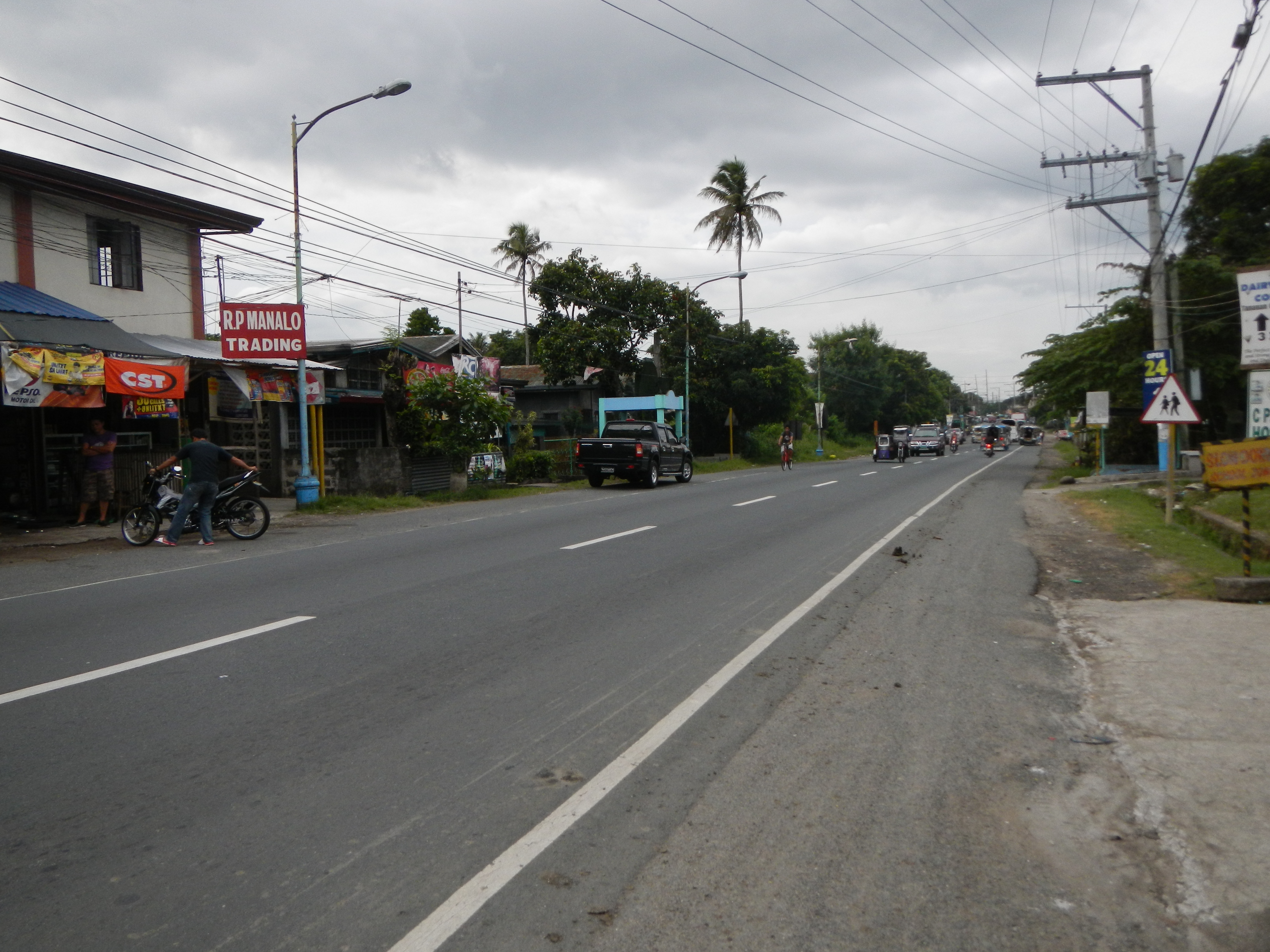 Boundary Barangays (San Pioquinto - Efren V. Hernandez - Mark Anthony Licarte of Malvar, Batangas [1] ) & Barangay Darasa in Tanauan, Batangas [2] - The City of Tanauan is a first class city in the province of Batangas, Philippines. According to the latest census, it has a population of 152,393 inhabitants in 30, 354 households; incorporated as a city under Republic Act No. 9005, signed on February 2, 2001, and ratified on March 10, 2001. [3] Coordinates: 14°5'28"N 121°5'51"E [4] Geographical location: Batangas, Region 4, Philippines, Asia Geographical coordinates: 14° 4' 58" North, 121° 9' 2" East This place is situated in Batangas, Region 4, Philippines, its geographical coordinates are 14° 4' 58" North, 121° 9' 2" East and its original name (with diacritics) is Tanauan. Website